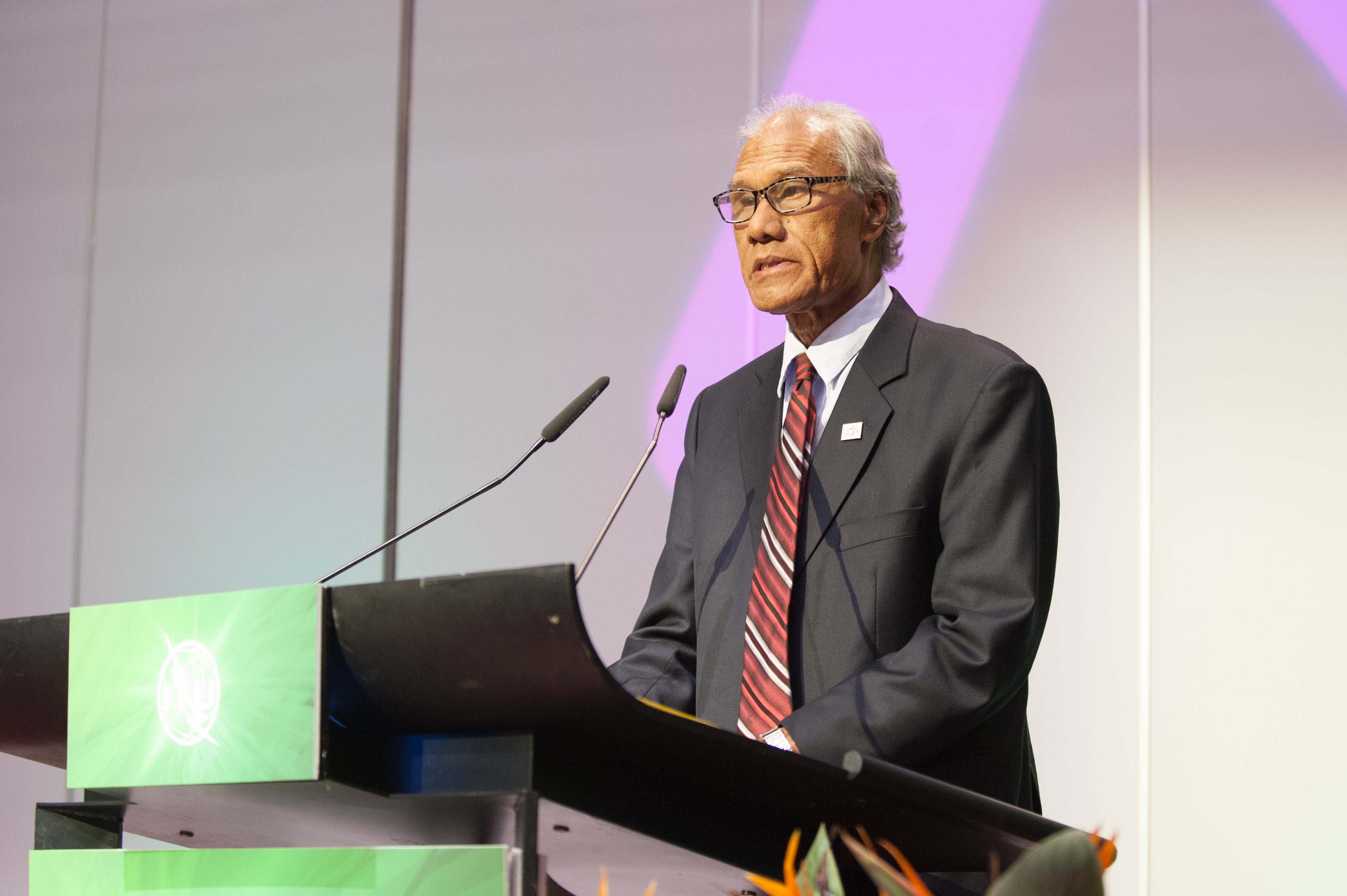 4th May 2016 H.E. ʻAkilisi Pōhiva, Prime Minister, Tonga High-Level Policy Statements: Concluding Session ©ITU/D.Woldu